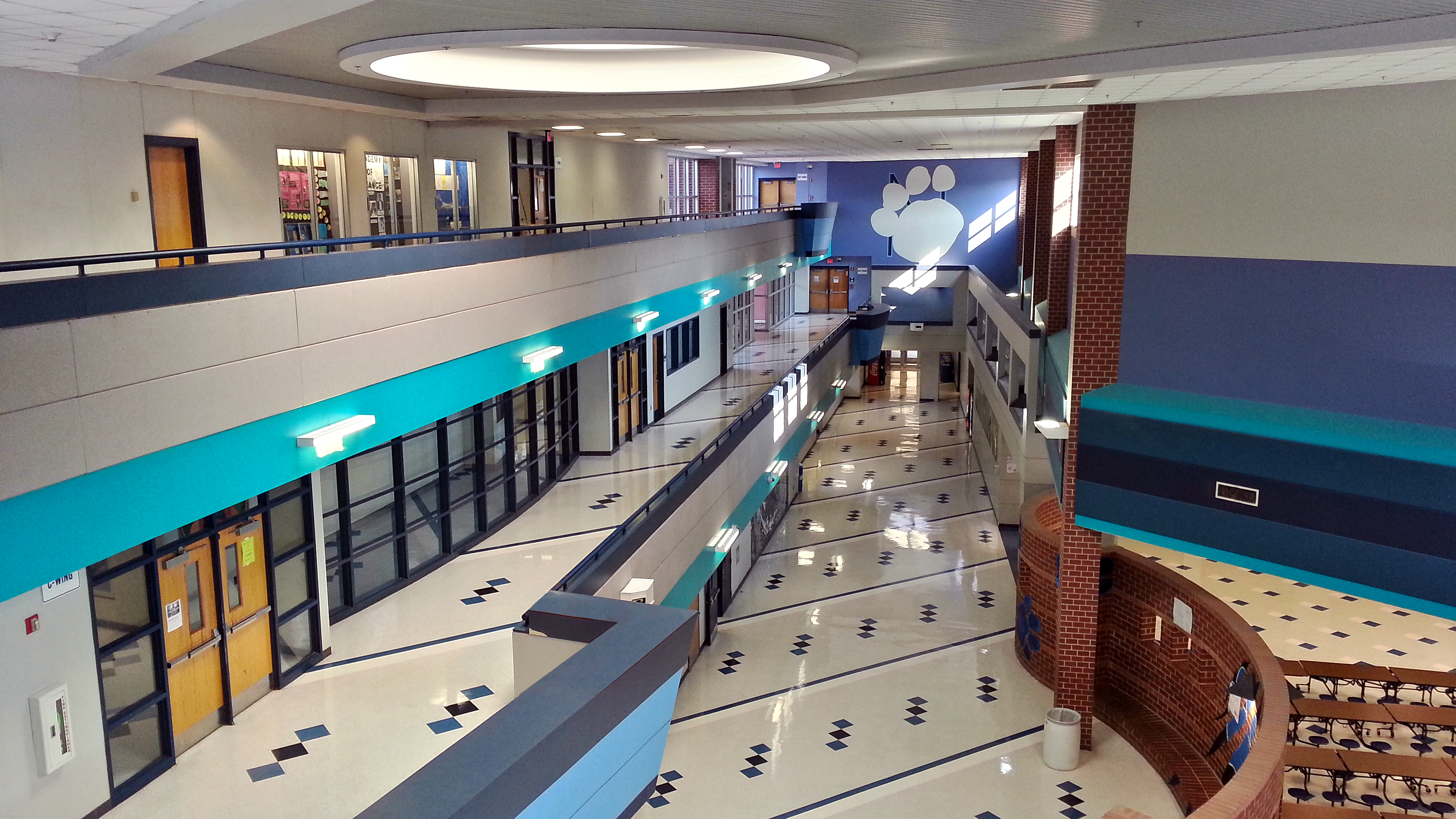 The third floor Skywalk at Northwestern, looking towards the core facility and D/E/F-Wing. The food court can partially be seen in the lower-left corner of the photo.